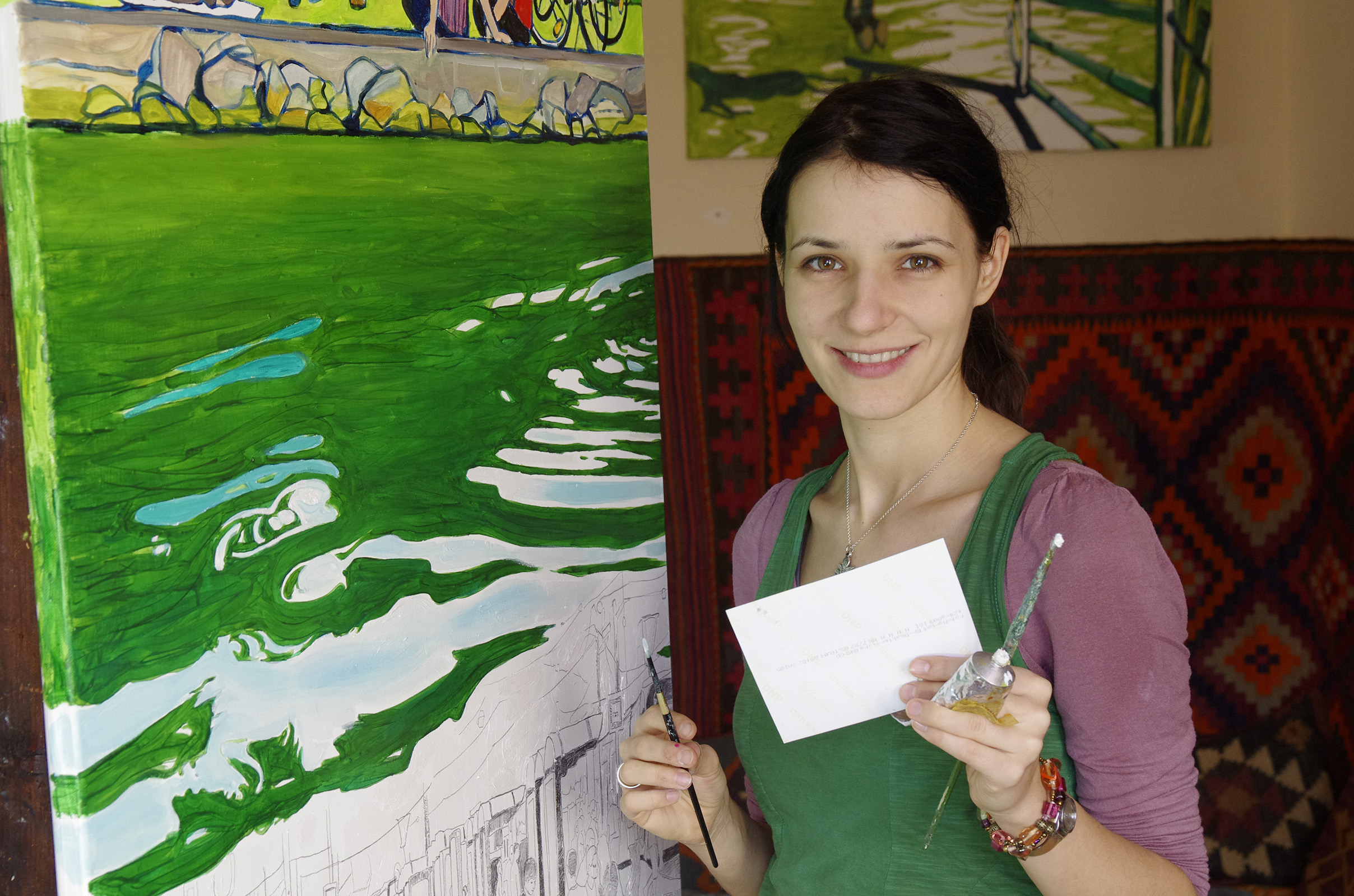 Sára Osgyányi